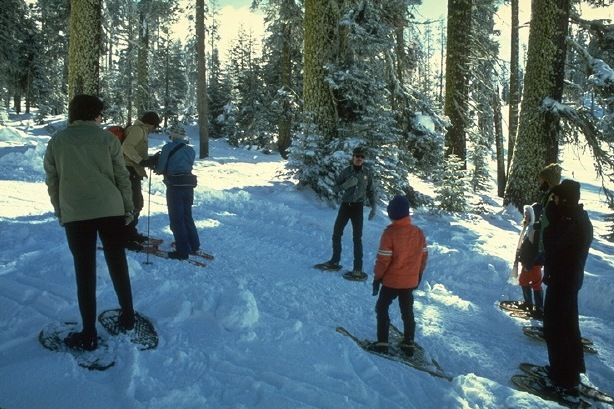 United States National Park Service photo of snowshoeing in Yosemite National Park